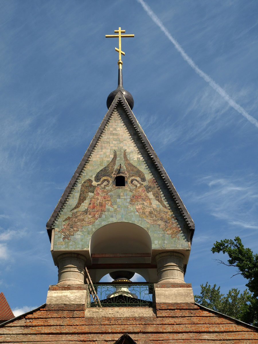 Old Believers church of Resurrection of Christ. Moscow, Tokmakov Lane, 17. 1908-1909, architect: Ilya Bondarenko (1870-1947). The church, partially restored, is blocked by adjacent buildings and trees that obscure its actual shape crowned with an unusual triangular belltower.